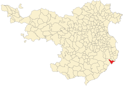 Palamós